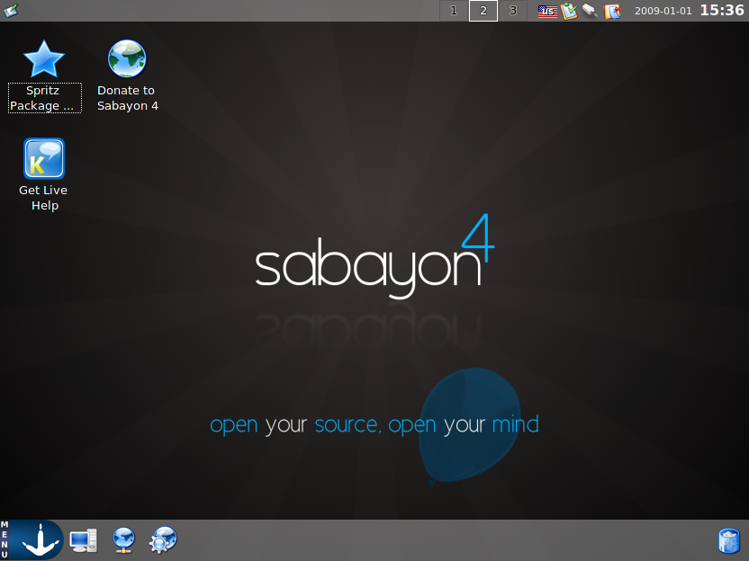 Sabayon linux 4.0 screenshot after installation